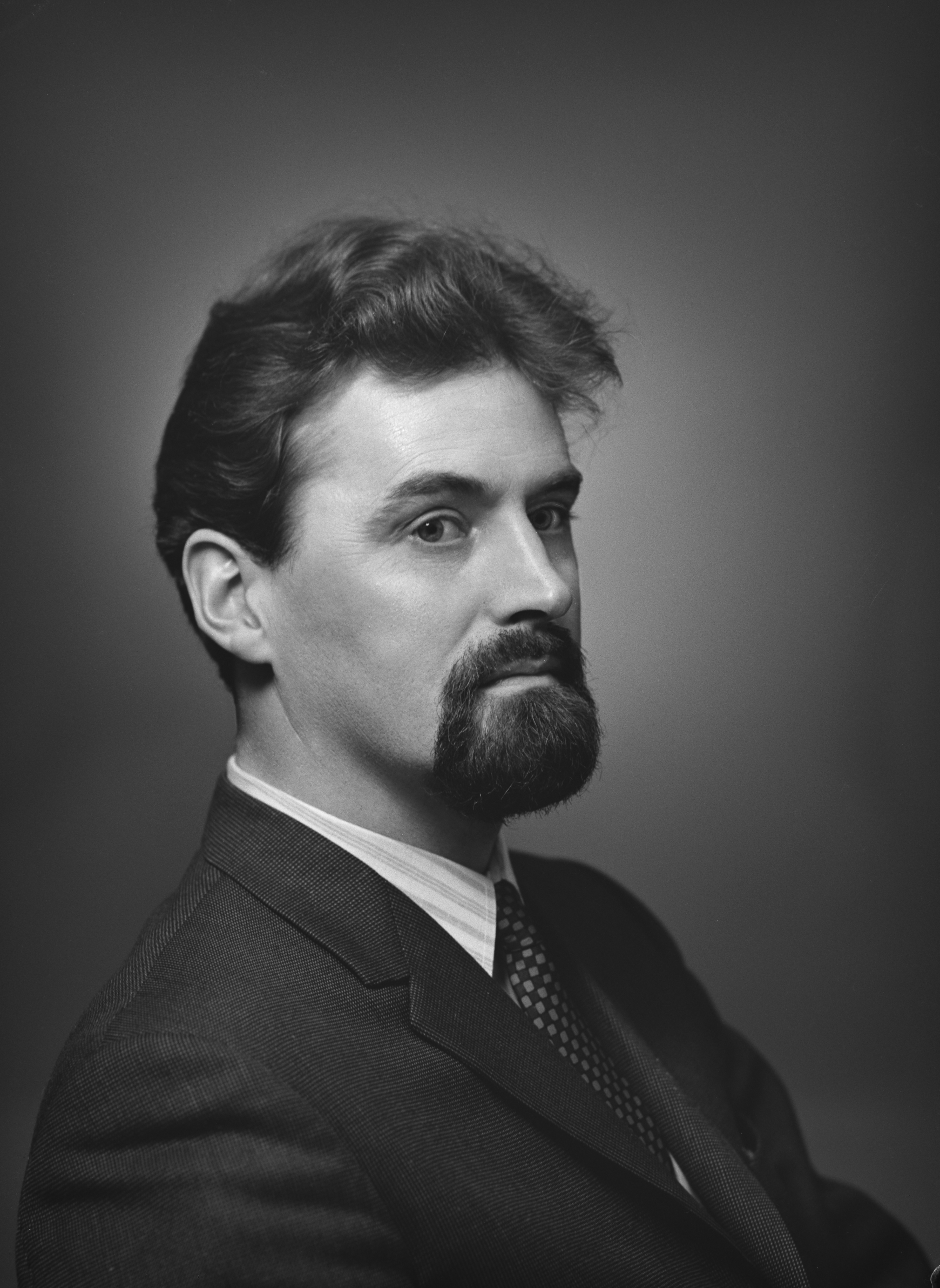 Photograph of the Finnish vocalist and organist Erkki Forss (1926–2013).